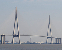 Sutong Bridge over the Chang Jiang (Yangtze River) — between Suzhou and Nantong, Jiangsu province — southern China.